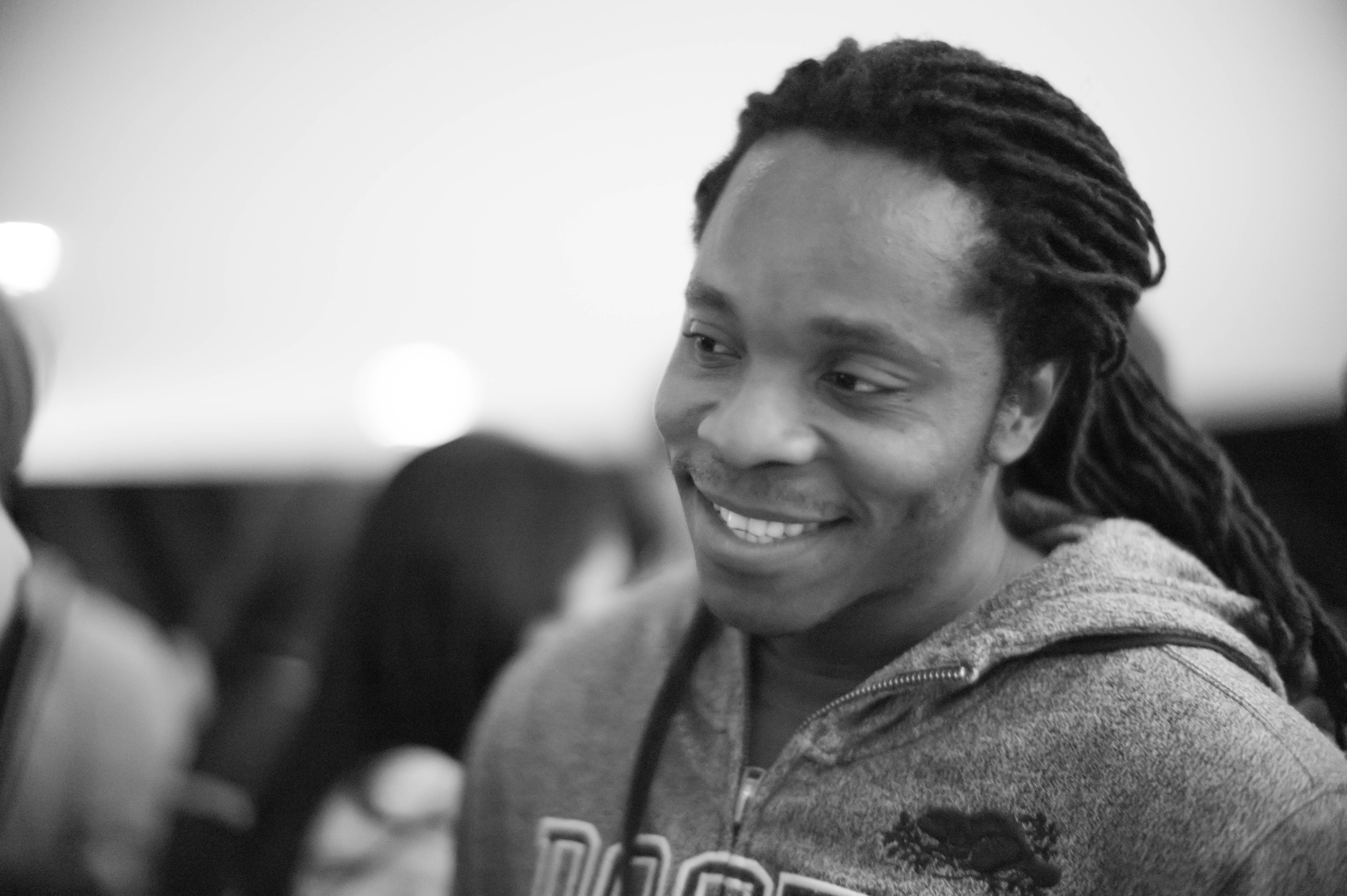 Sierra Leone healthcare innovator David Moinina Sengeh in Boston, in 2013. As of 2018, David Moinina Sengeh is the Chief Innovation Officer for the Directorate of Science,Technology and Innovation in Sierra Leone. He is a TED Senior Fellow.